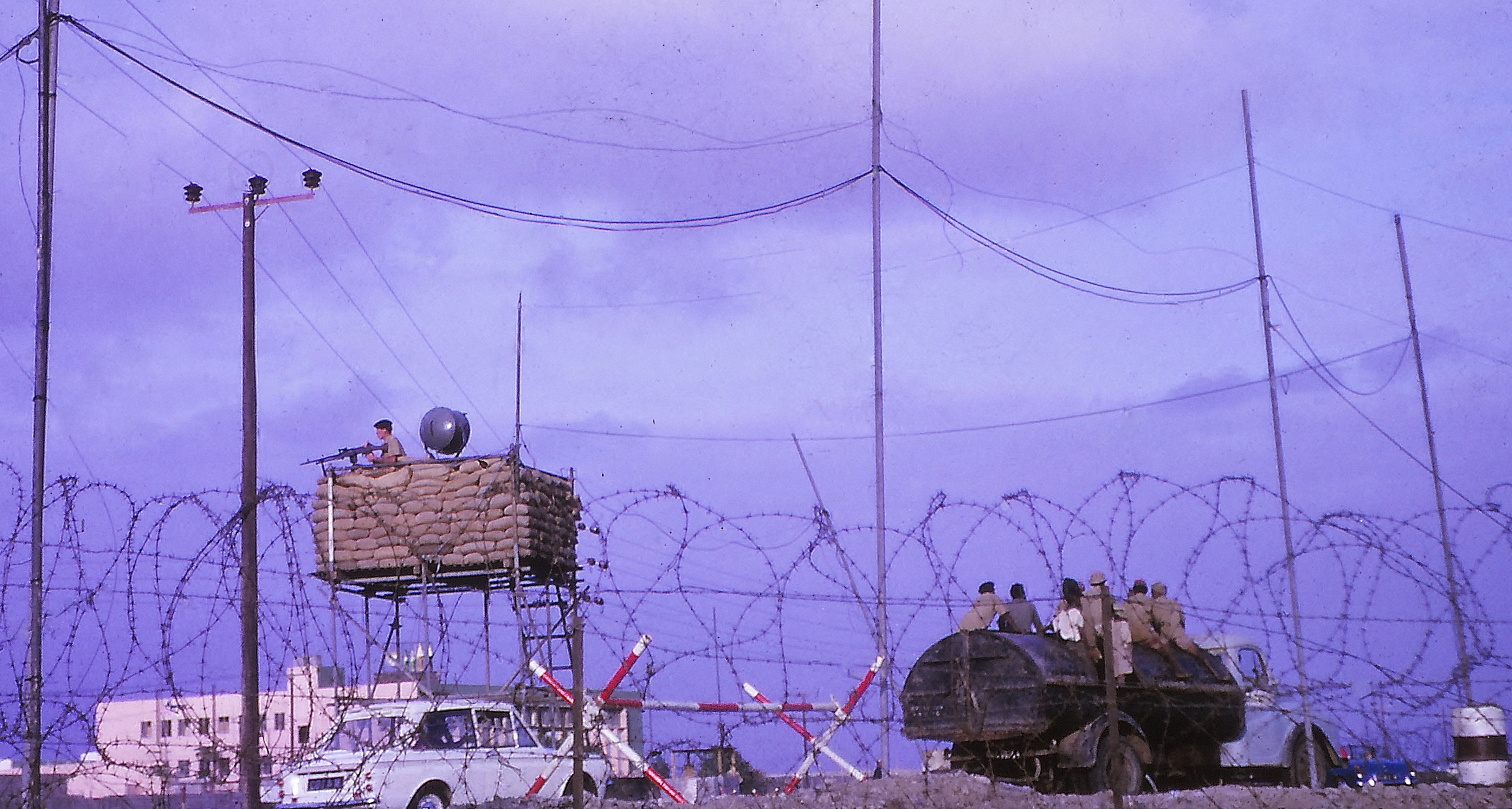 Checkpoint Bravo. Pte Norbury on sentry while a rubbish truck passes through the checkpoint. The searchlight was used at irregular intervals during the night to spotlight areas from where Blindicide rockets might be directed at the checkpoint.